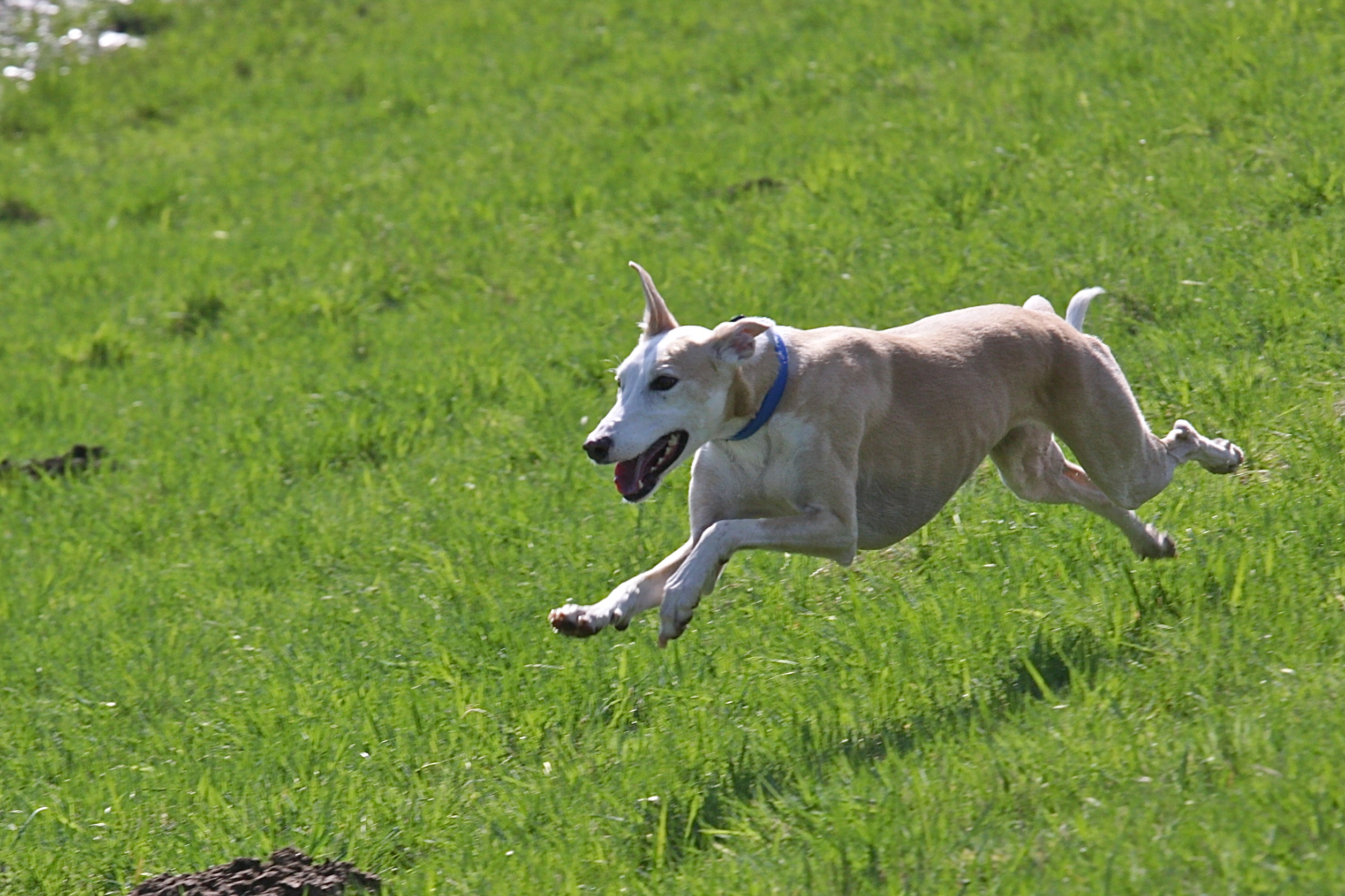 Galgo español